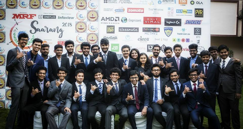 These are also known as the cores of Saarang.These are the reason for the success of Saarang.